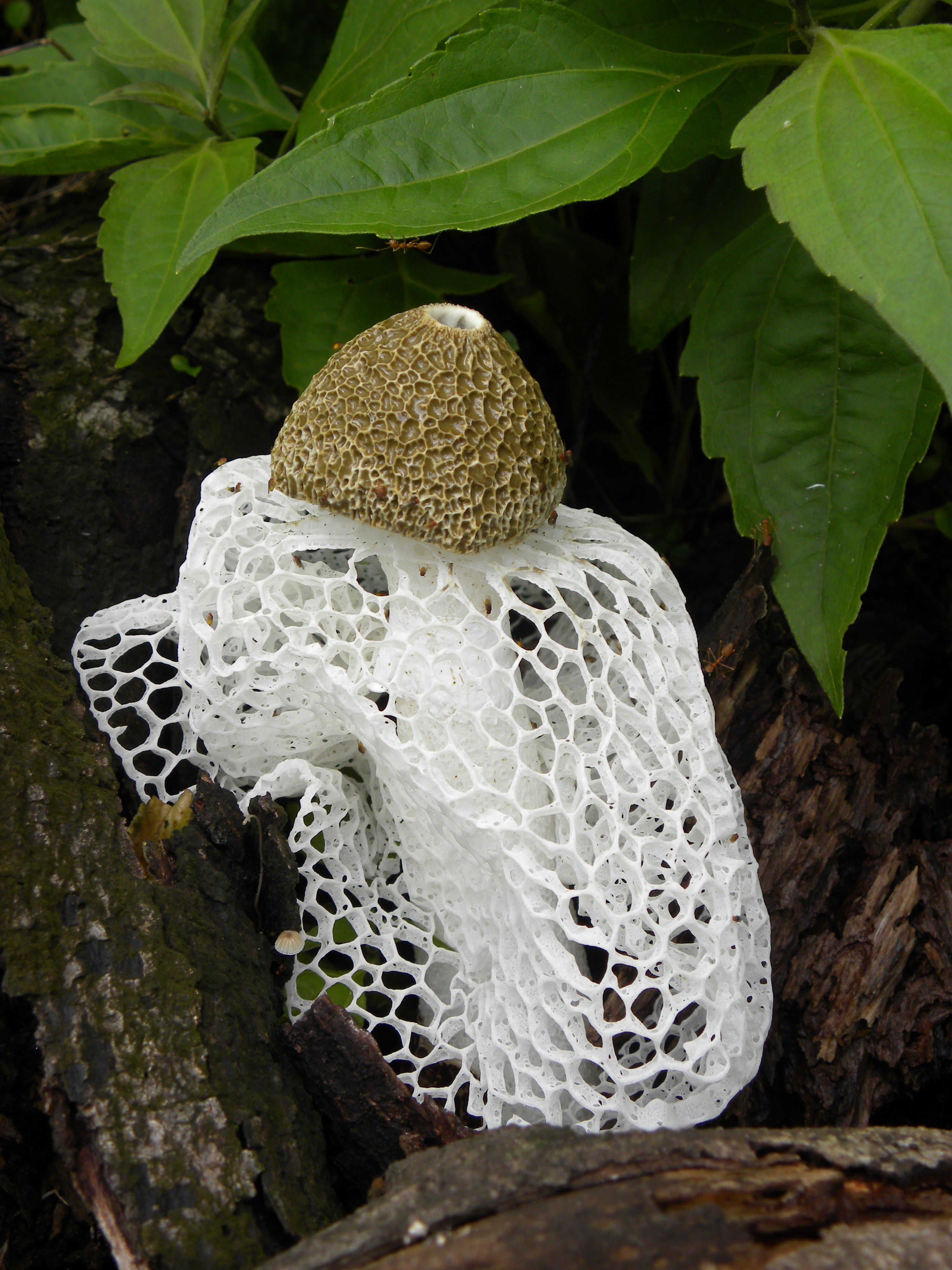 A Bamboo Pith (Phallus indusiatus) from Kerala. Christmas Bush (Chromolaena odorata) leaves are also visible.